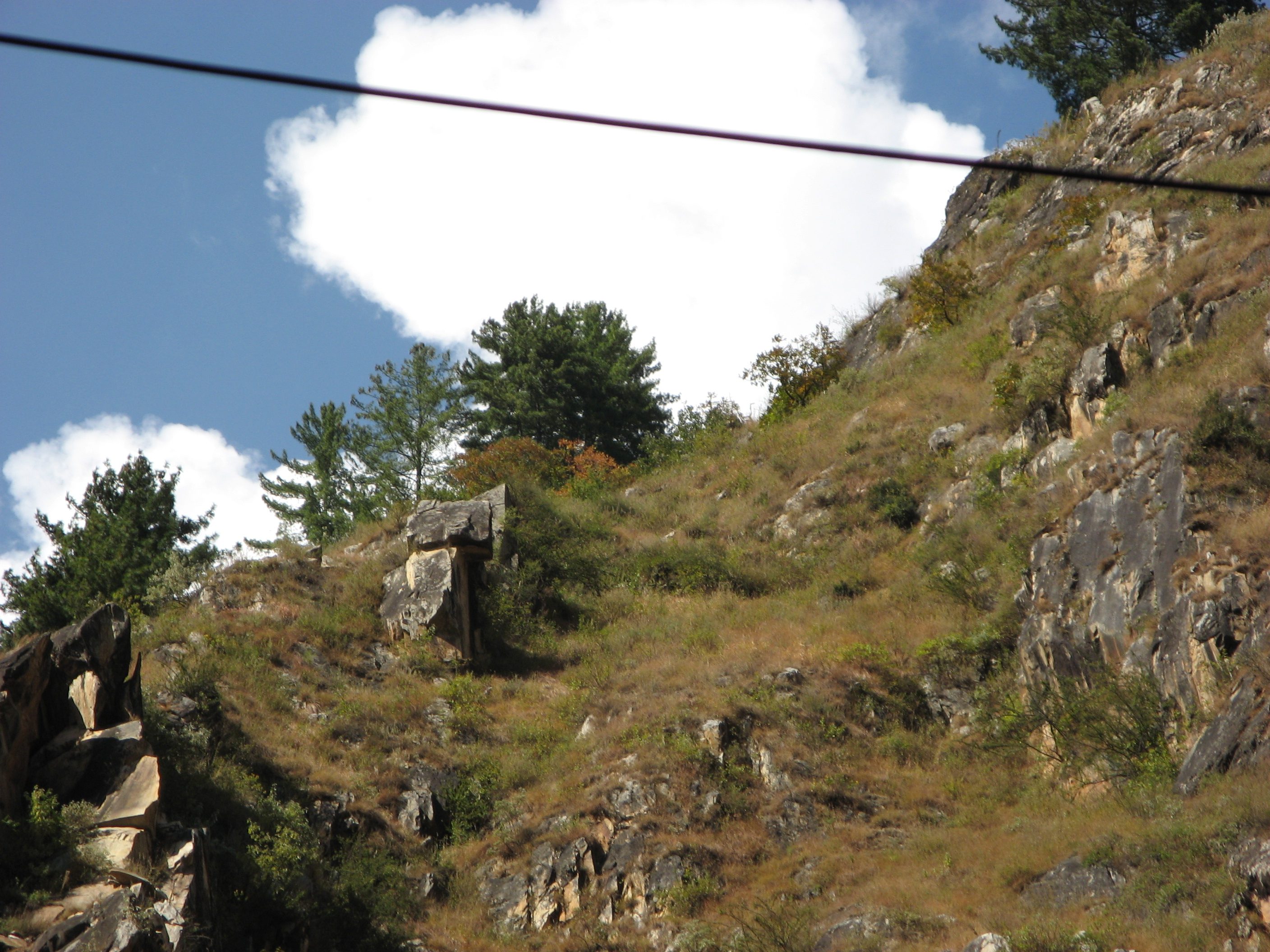 Deformed rocks in Himachal Pradesh.